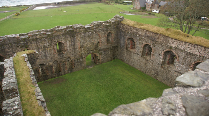 Skipness Castle, Argyll and Bute, Scotland - courtyard